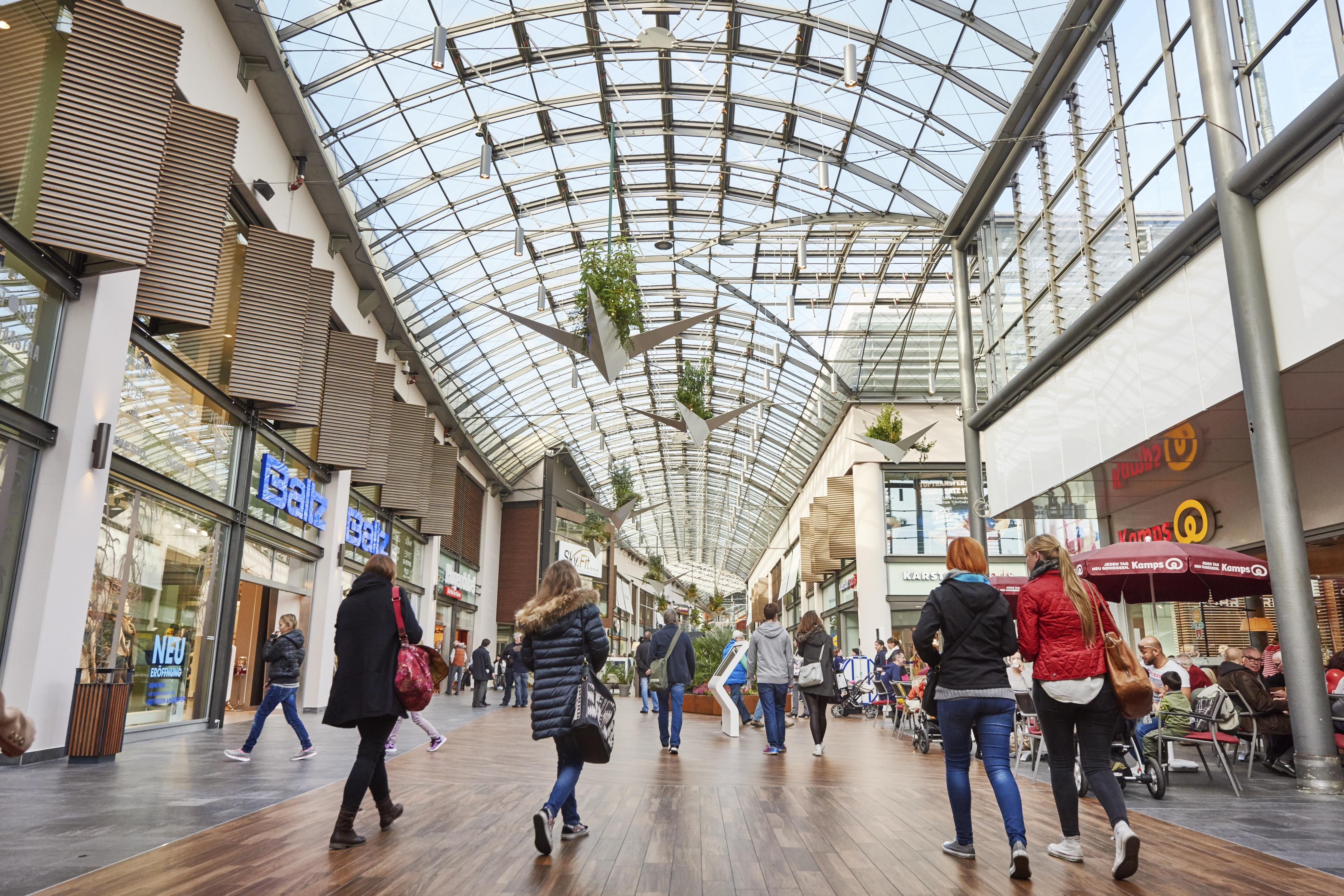 Ruhr Park in Bochum